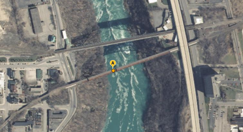 Abandoned Michigan Central Railway bridge at Niagara Falls, marked with an "A".